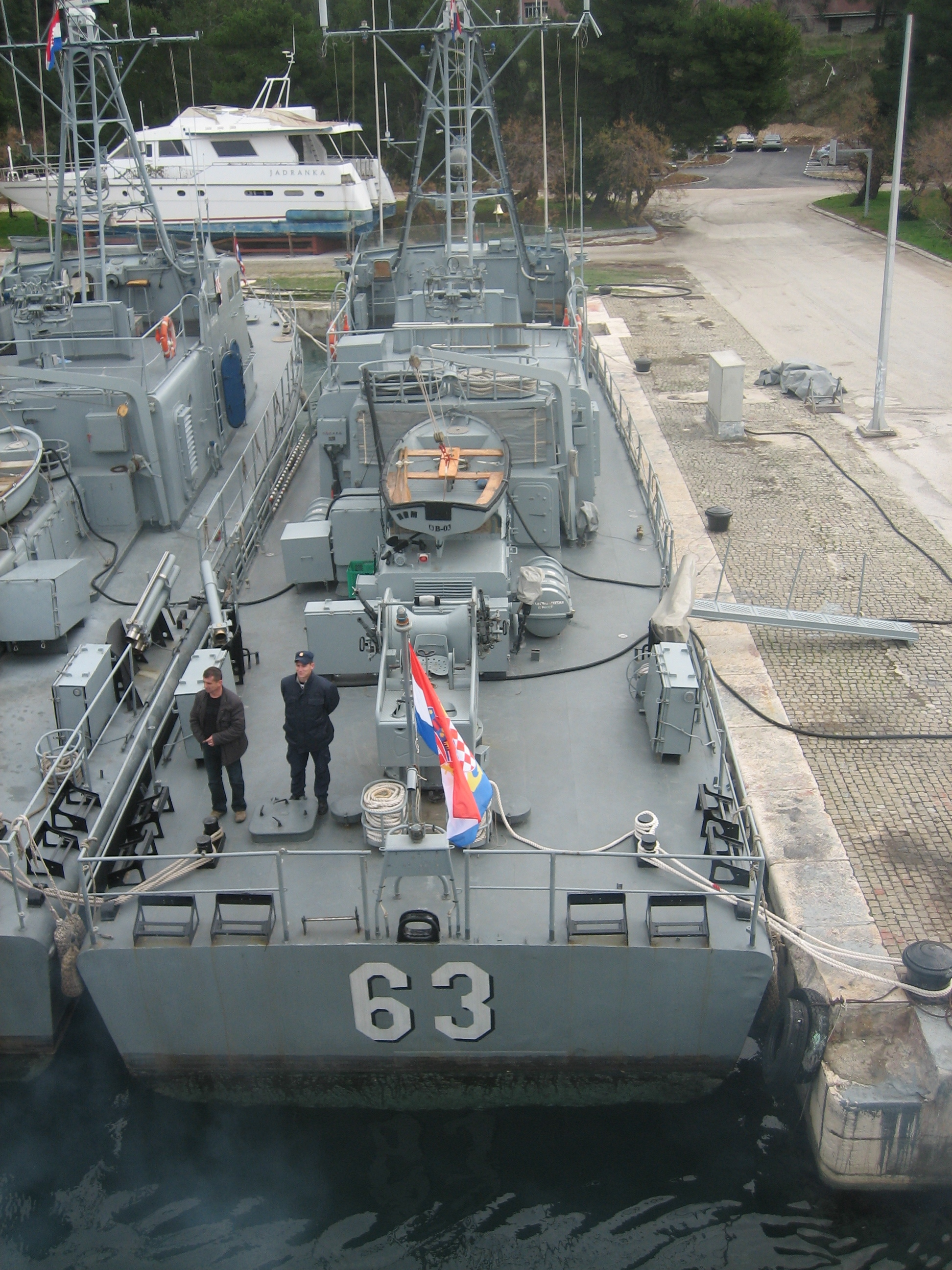 Croatian Navy OB-63 Cavtat